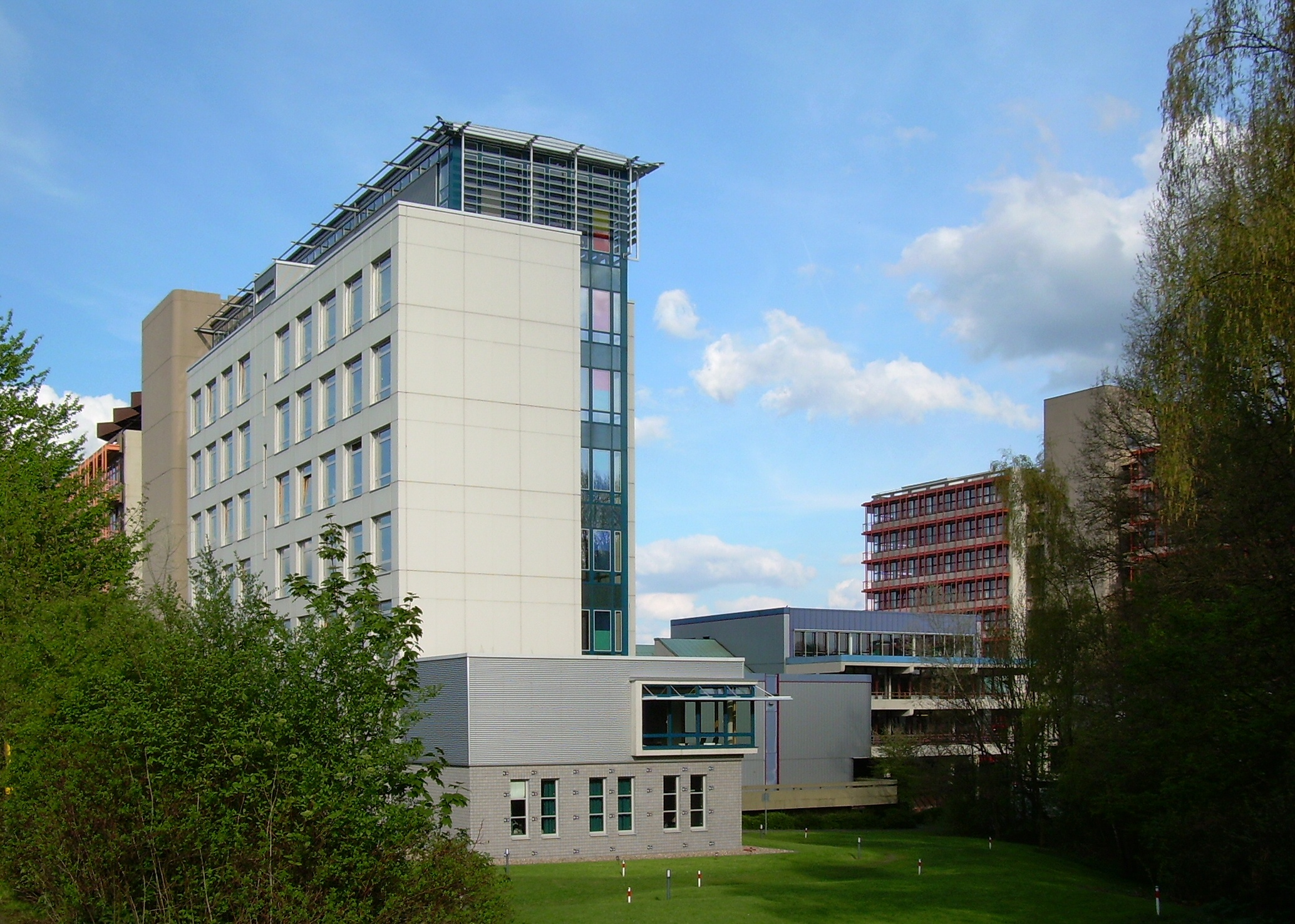 Bochum university of applied sciences, view from northwest